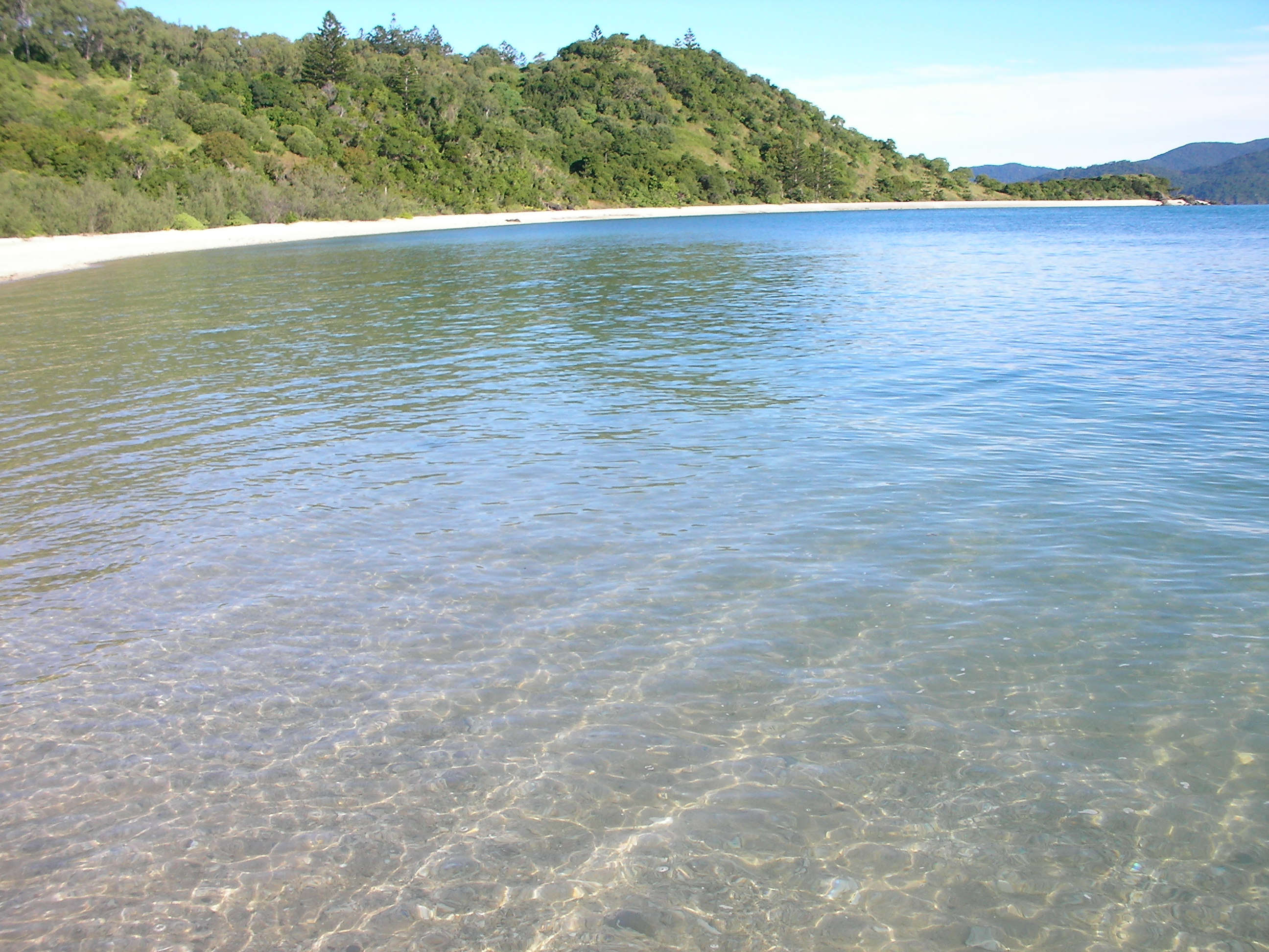 looking south along the beach of Sandy Bay, South Molle Island, Queensland, Australia